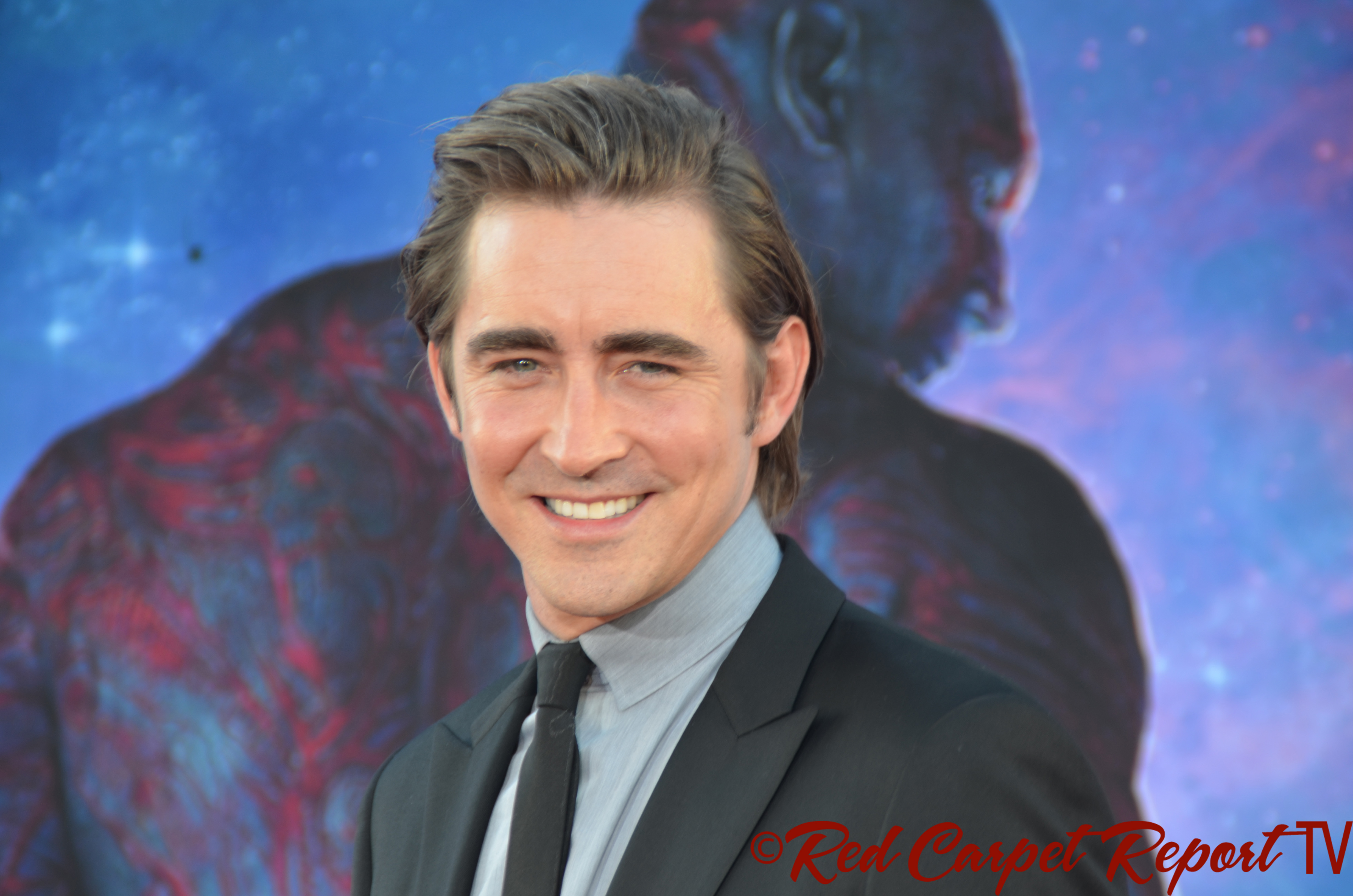 Lee Pace at the Guardians of the Galaxy premiere in July 2014